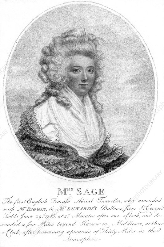 Mrs Letitia Ann Sage, the first English female aerial traveller. She ascended with Mr Biggin in Lunardi's balloon from St George's Fields, London, England, on 29 June 1785.